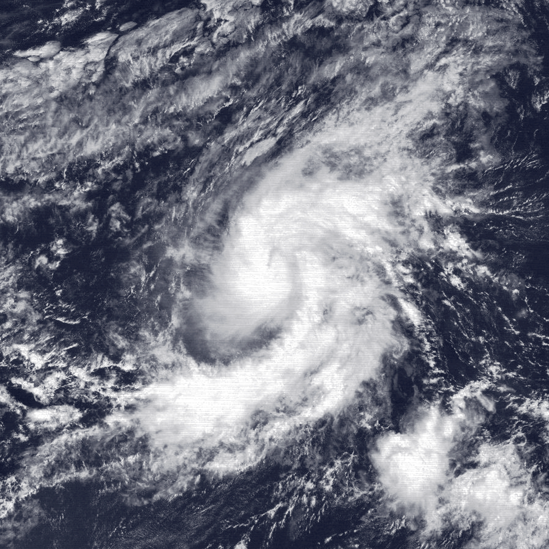 Tropical Storm Octave near peak intensity in the Eastern Pacific Ocean on September 28, 1983